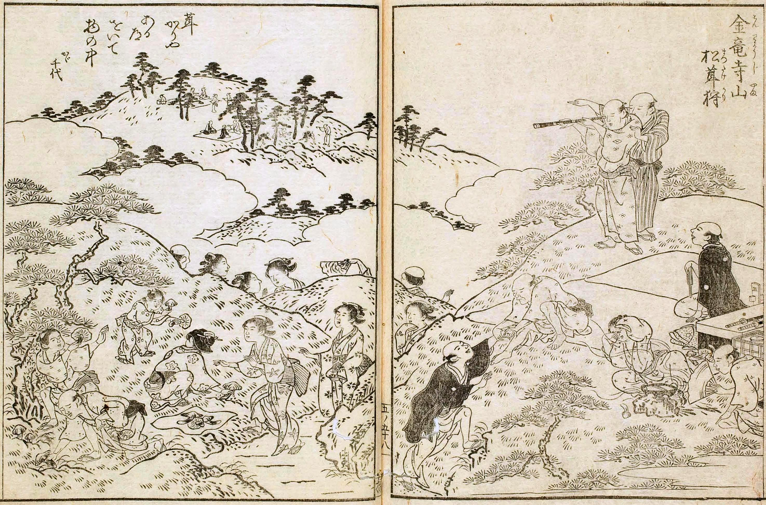 Matsutake mushrooms Picking in the 18th century Japan